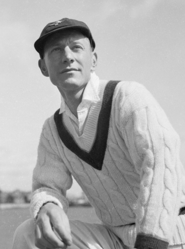 Gloucester, England. 1945-06-02. Portrait of 416624 Flying Officer R. M. Stanford DFC, a member of the RAAF cricket team which played a series of matches against representative teams of the English counties and the different services.